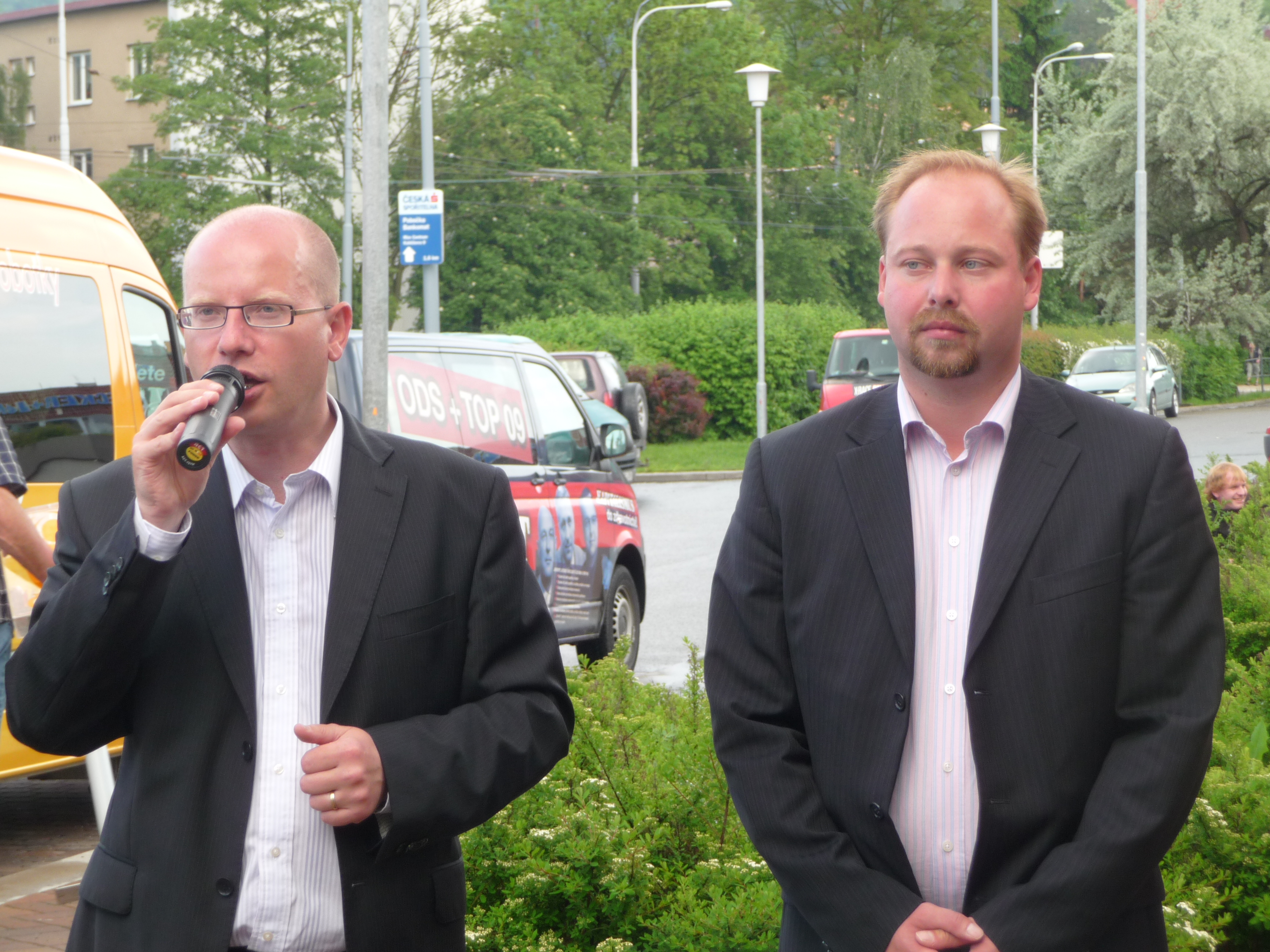 Jeroným Tejc and Bohuslav Sobotka on the ČSSD election meeting "Grill party" in Brno-Bystrc